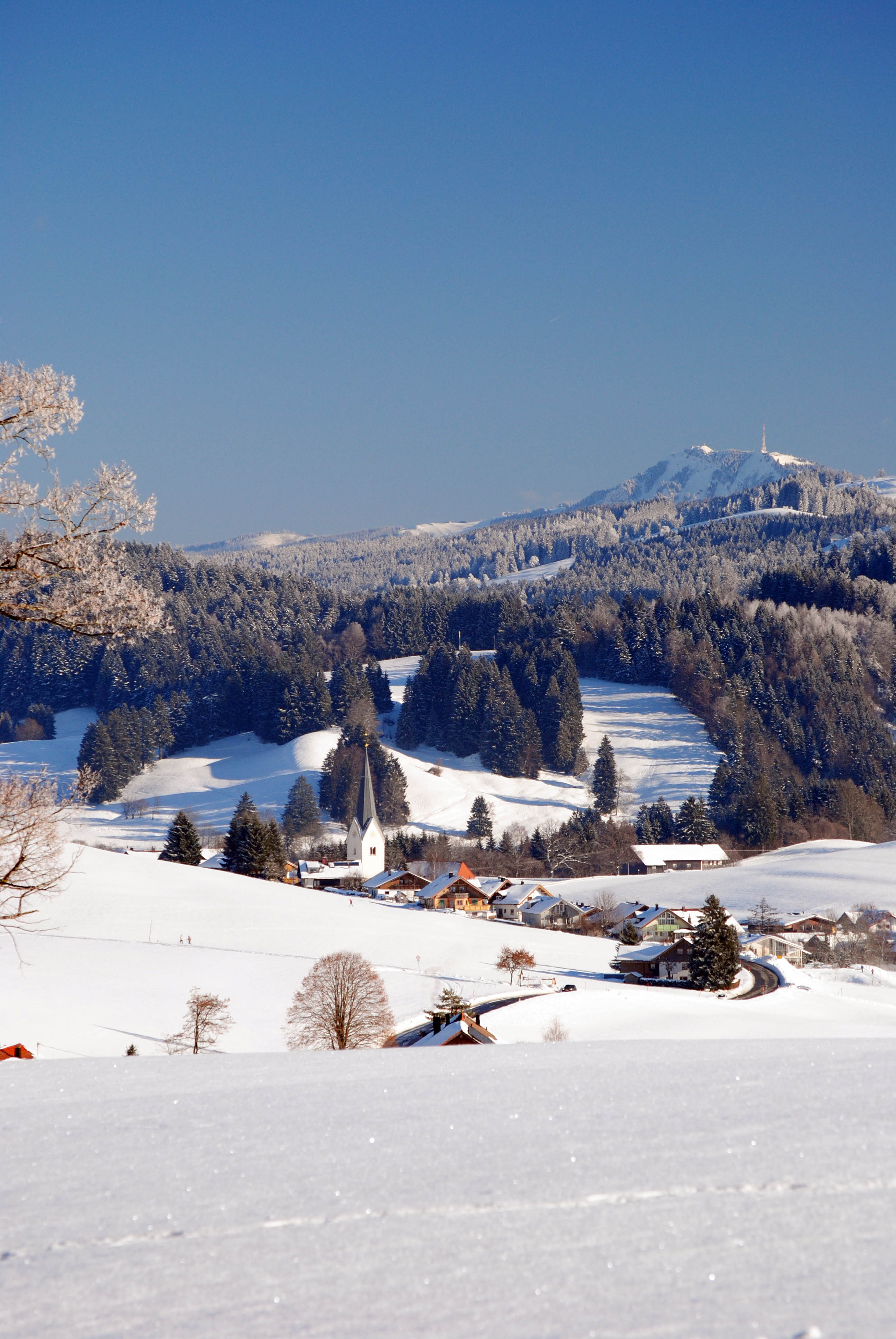 The village of Stiefenhofen, Germany, in winter time.